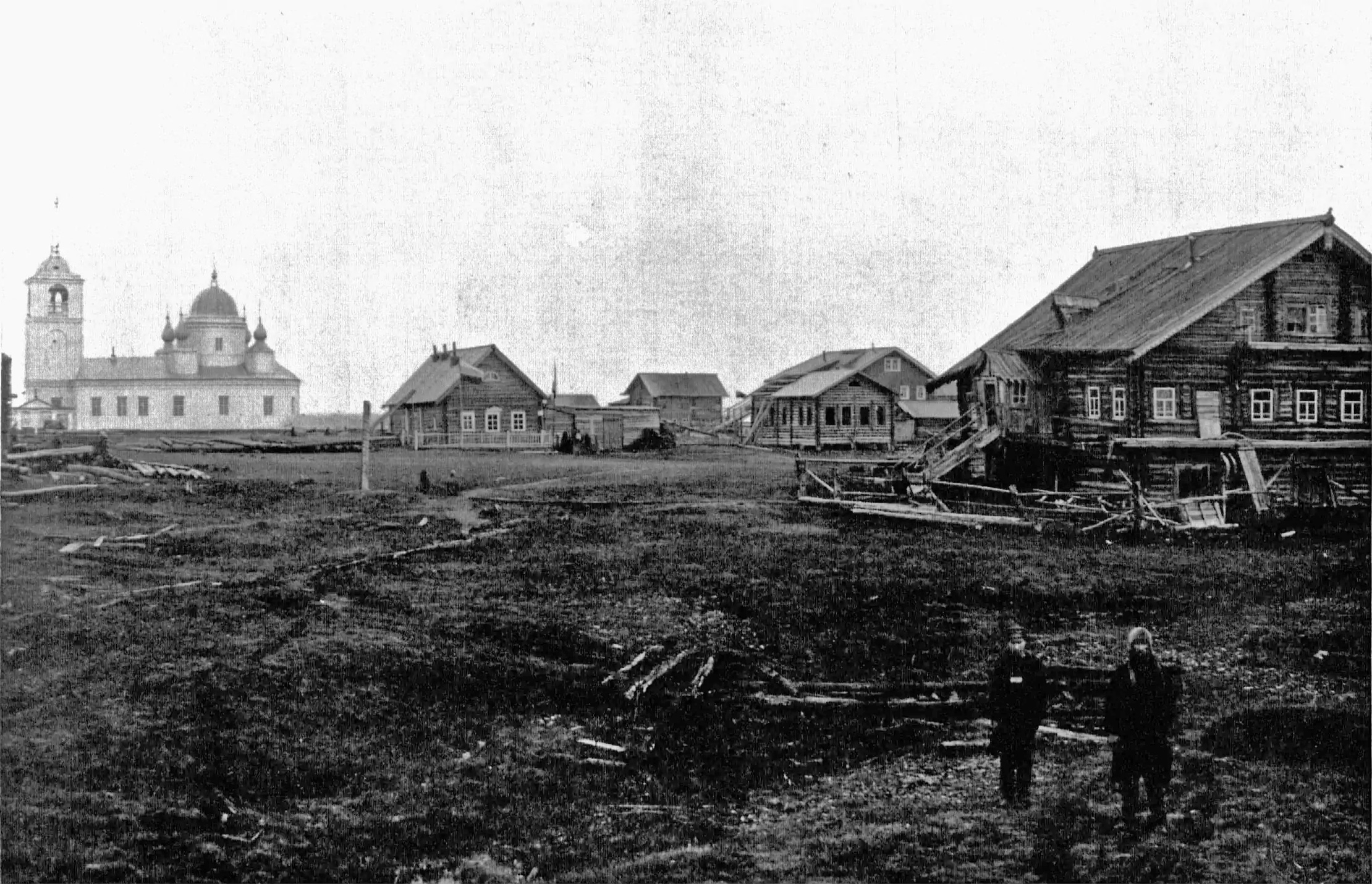 View of Pustozyorsk (1909)